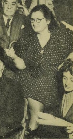 May Hollinworth (1895-1968): Australian actress, theatre director and founder of the Metropolitan Players